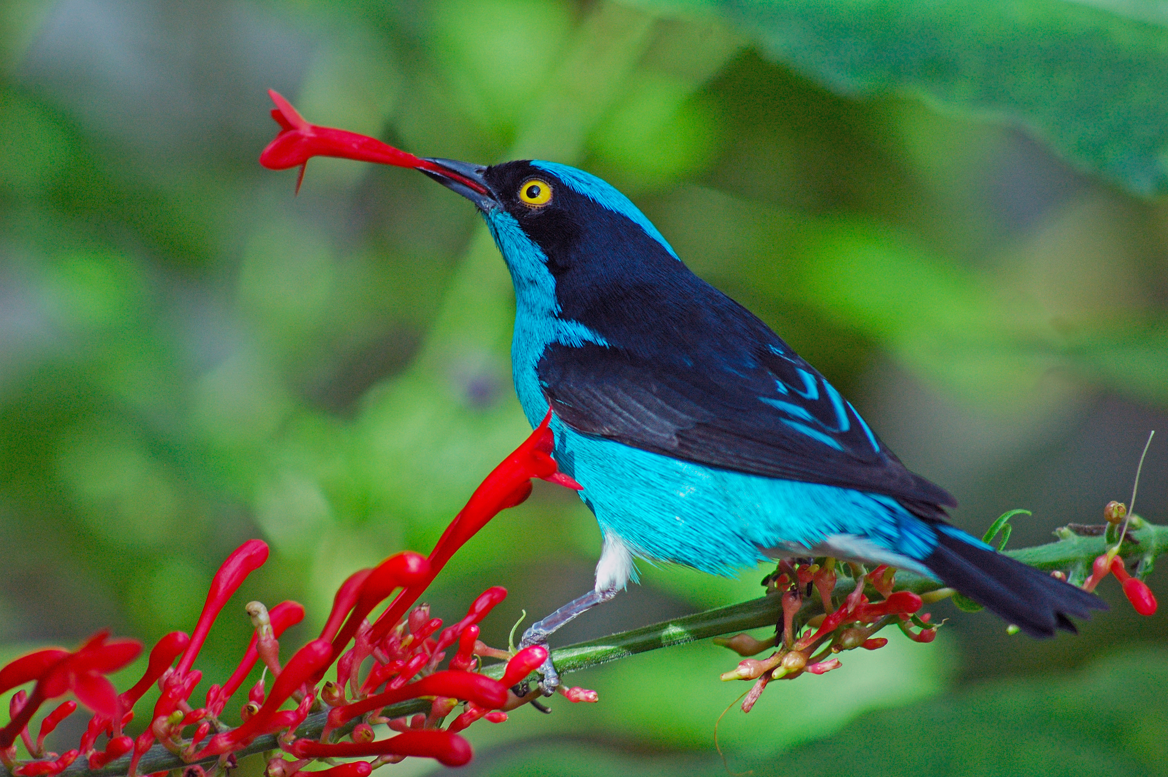 Black-faced Dacnis (Dacnis lineata)